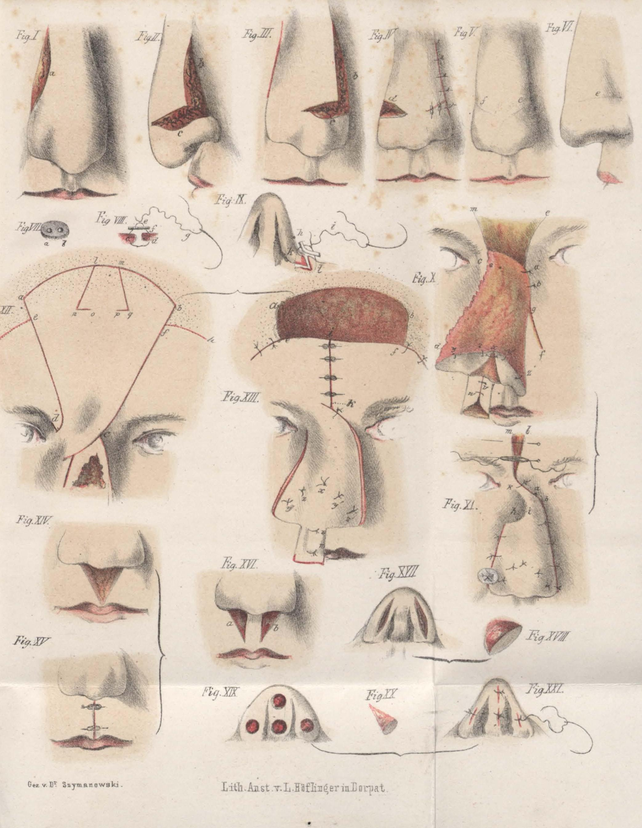 Plate drawn by Julius von Szymanowski on reconstructive rhinoplasty